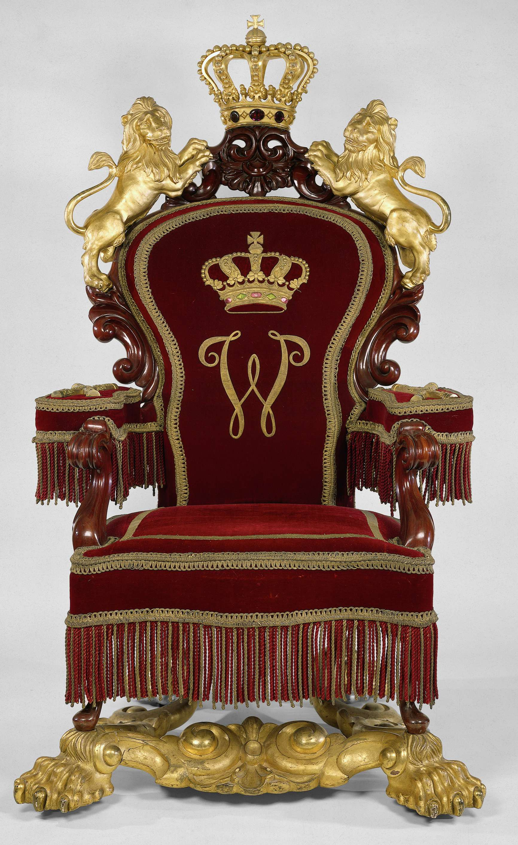 Throne of Kings William II, William III and of Queen Wilhelmina. Ornate chair with lion paws and feet. Back crowned flanked by two lions. With backrest and seat frills. Front seatback embroidered crowned W and text on back: Chair of King William II given by Queen Anna Paulovna. Given to King William III.Horrix Brothers, The Hague, 1842-1849